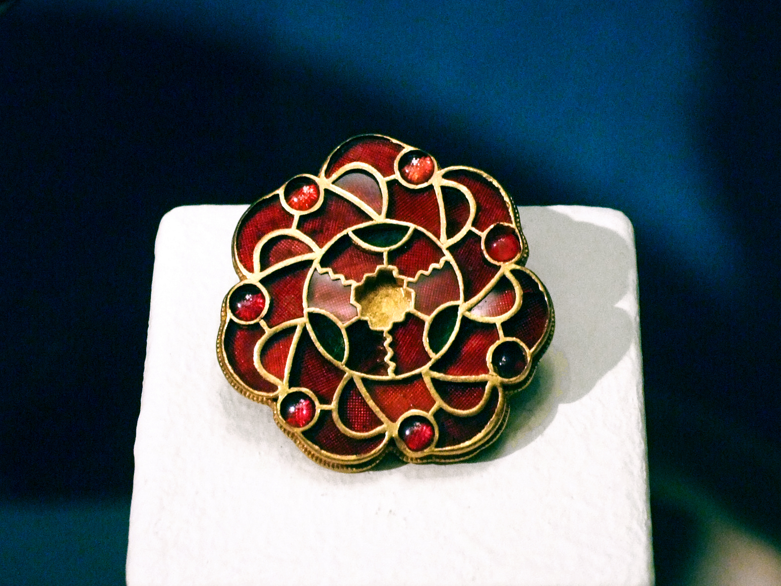 Disc fibula from the grave field of Schwanbeck District of Mecklenburg-Strelitz, Mecklenburg-Vorpommern, Germany The discovery site is in Schwanbeck, on the western edge of a Germanic settlement of the late imperial Roman and Migration eras. Corpse grave, Find 959 Grave of an adult woman, oriented north-south, who was apparently buried in a small wooden chamber covered with three layers of boulders. Unique cloisonné disc fibula of gold with almandines on a honeycombed gold foil. Photographed while on display from 22 August 2008 to 11 January 2009 in the exhibition "Die Langobarden. Das Ende der Völkerwanderung" at the Rheinisches LandesMuseum Bonn. On loan from the Archäologisches Landesmuseum Mecklenburg-Vorpommern, Schwerin, Germany.